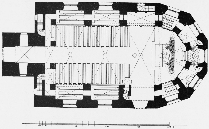 Footprint of the church in Hainewalde